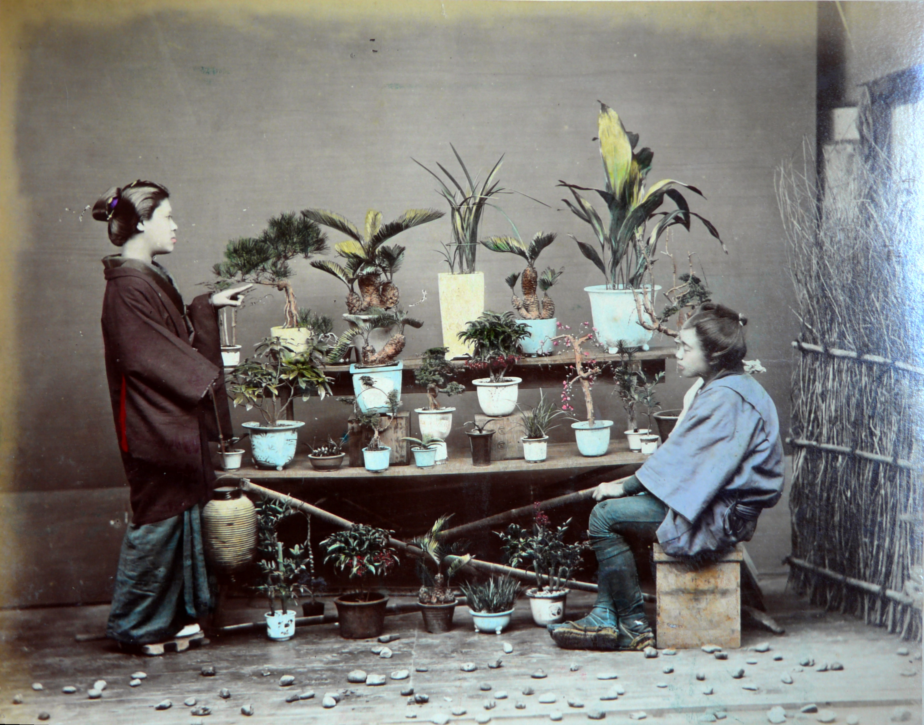 Painted photograph from Japan, dating from before 1886, according to a written note on the album containing the photographs. Presumed Author of the original photographs: Adolfo Farsari.